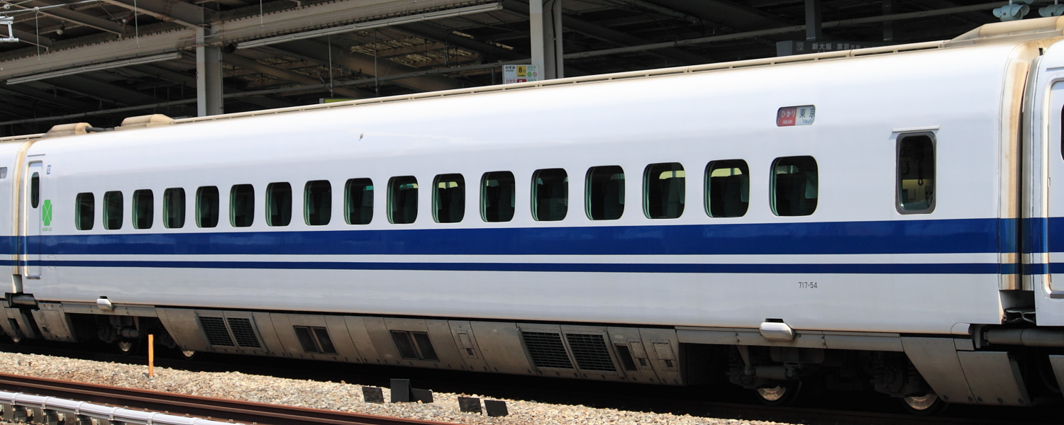 Shinkansen Series 700(717-54) in Nishi-Akashi Station